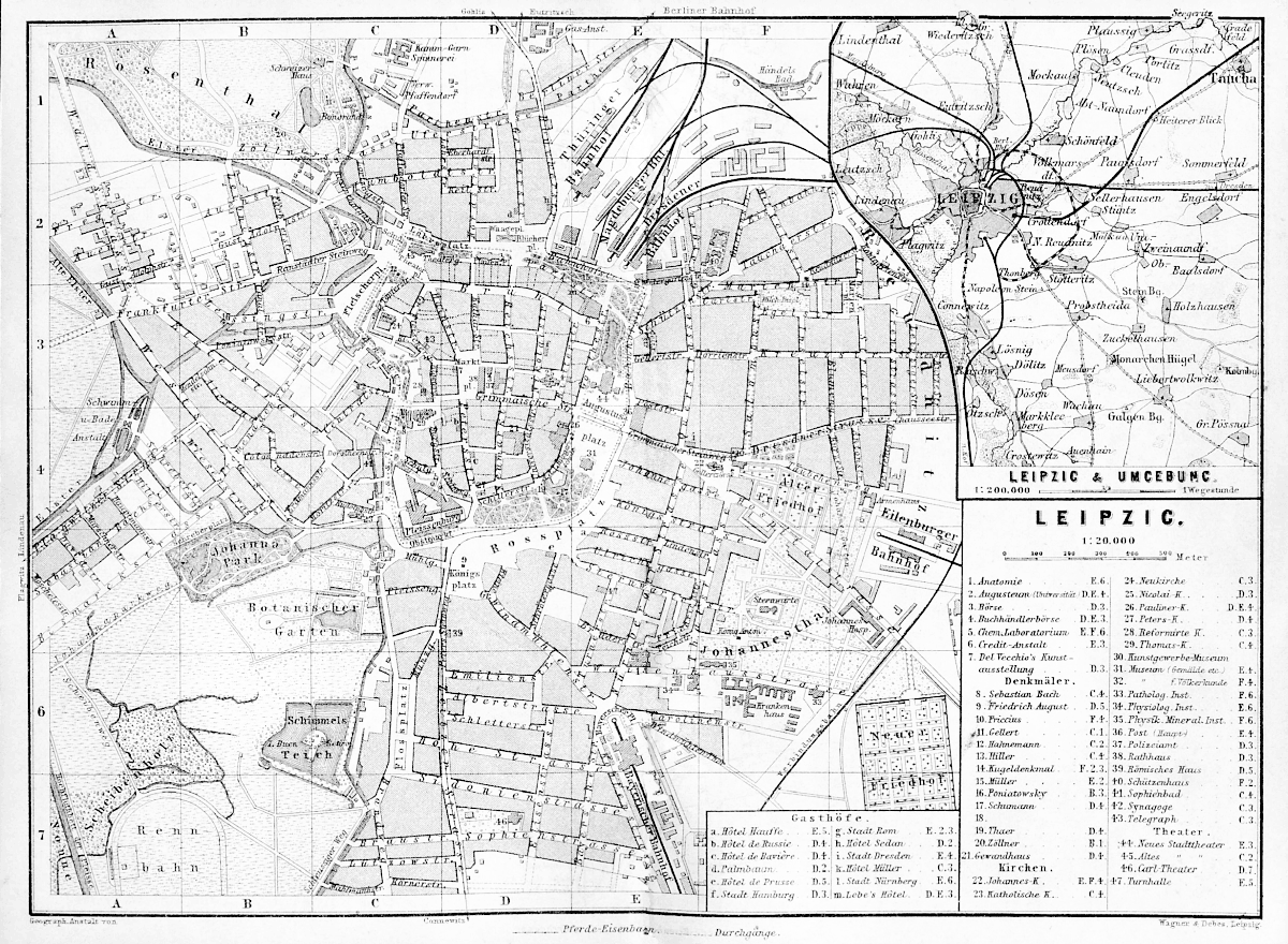 Map of Leipzig, 1876